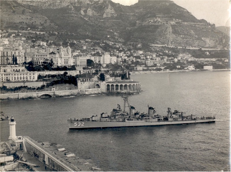 The U.S. Navy destroyer USS Heermann (DD-532) entering the harbour of Monaco, in April 1956. Hermann's Comanidng Officer, Commander M.E. Meahl, USN, was the U.S. Representative at Grace Kelly's wedding (18 April 1956).